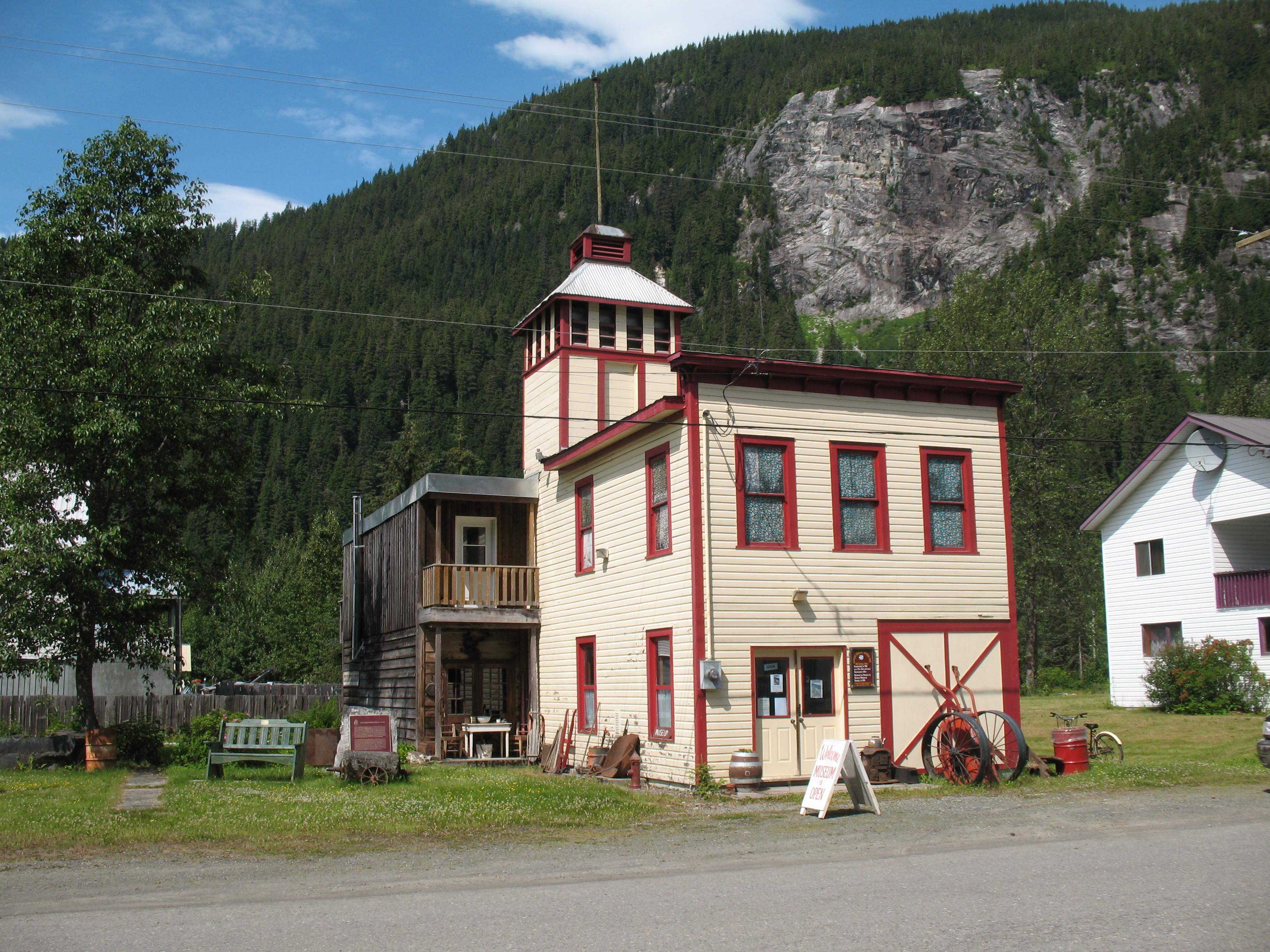 museum in Stewart, British Columbia